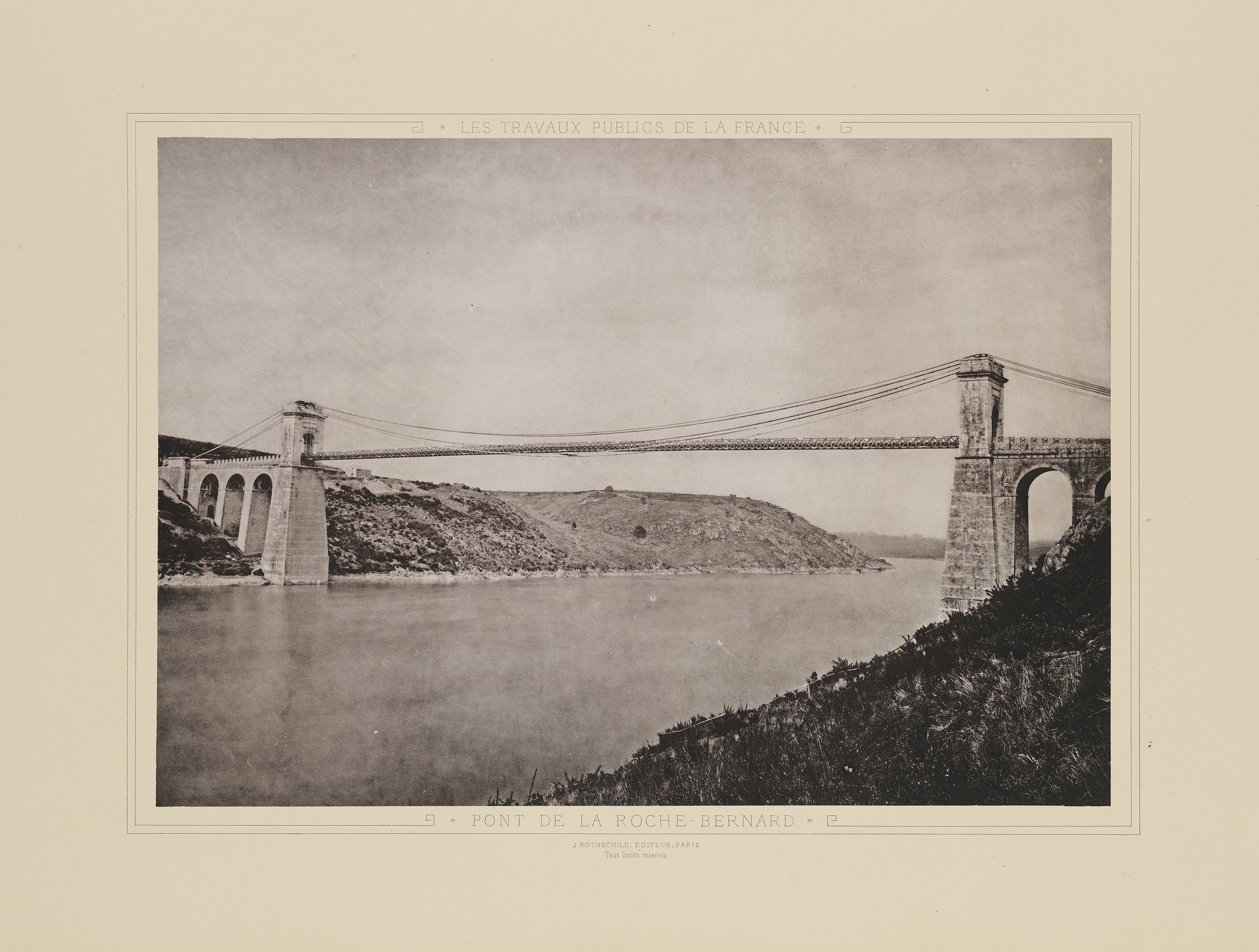 Title: Pont de la Roche-Bernard Alternative Title: Roche-Bernard Bridge Creator: Duclos, Jules Date: 1883 Part Of: Les Travaux Publics de la France, Tome Premier: Routes et Ponts Place: Marzan, Morbihan, France; Nivillac, Morbihan, France Physical Description: 1 photographic print: collotype; 26 x 35 cm on 40 x 56 cm mount File: vault_folio_2_ta71_a4_1883_1_47_opt.jpg Rights: Please cite Southern Methodist University, Central University Libraries, DeGolyer Library when using this image file. A high-quality version of this file may be obtained for a fee by contacting . For more information, see